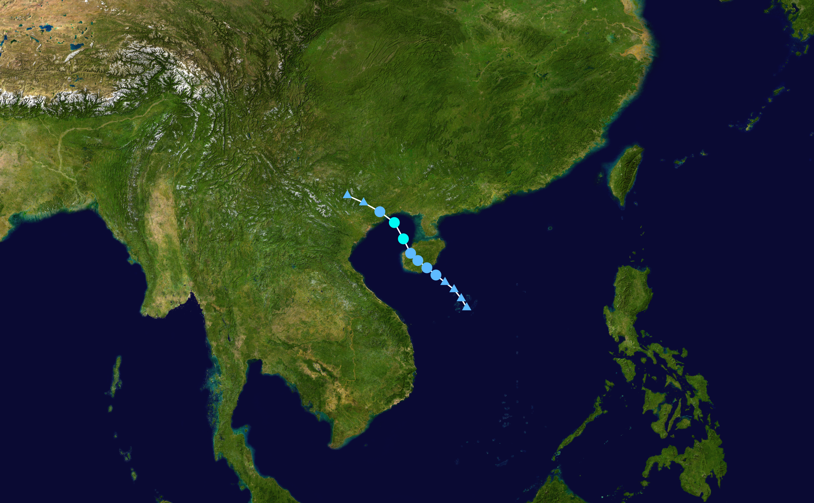 Track map of Tropical Storm Toraji of the 2007 Pacific typhoon season. The points show the location of the storm at 6-hour intervals. The colour represents the storm's maximum sustained wind speeds as classified in the Saffir–Simpson scale (see below), and the shape of the data points represent the nature of the storm, according to the legend below. Saffir–Simpson scale Tropical depression≤38 mph≤62 km/h Category 3111–129 mph178–208 km/h Tropical storm39–73 mph63–118 km/h Category 4130–156 mph209–251 km/h Category 174–95 mph119–153 km/h Category 5≥157 mph≥252 km/h Category 296–110 mph154–177 km/h Unknown Storm type Tropical cyclone Subtropical cyclone Extratropical cyclone / Remnant low / Tropical disturbance / Monsoon depression